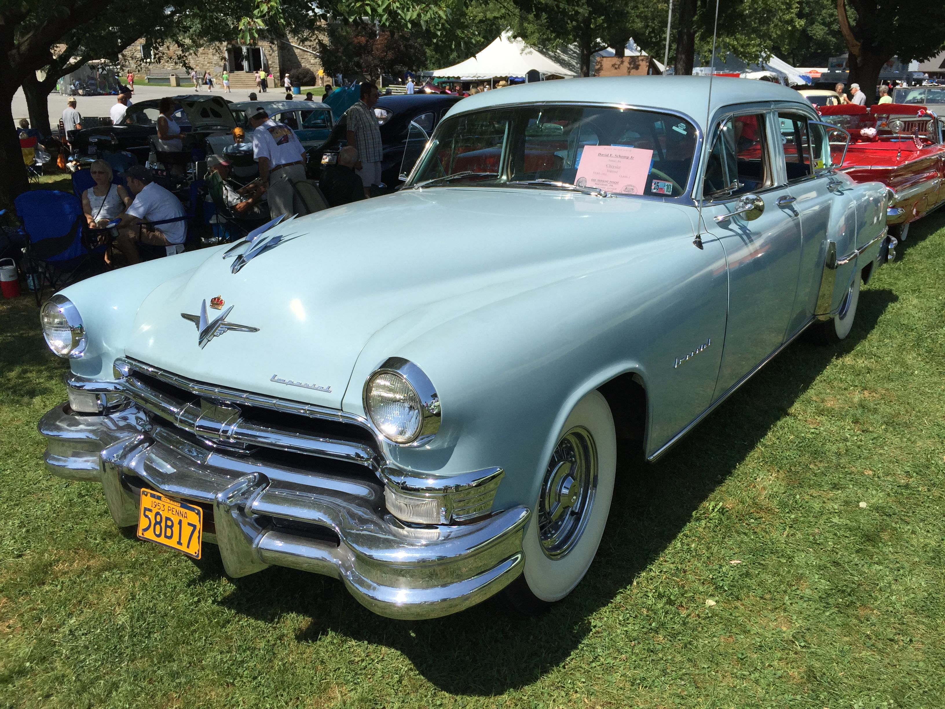 1953 Chrysler Custom Imperial, the six-passenger limousine model finished in blue. Standard equipment included electric windows, electric division window, floor level courtesy lamps, rear compartment heater, fold-up footrests, seatback mounted clock, as well as special luxury cloth upholstery. Picture taken at the 52nd Annual "Das Awkscht Fescht" antique car show in Macungie, Pennsylvania.